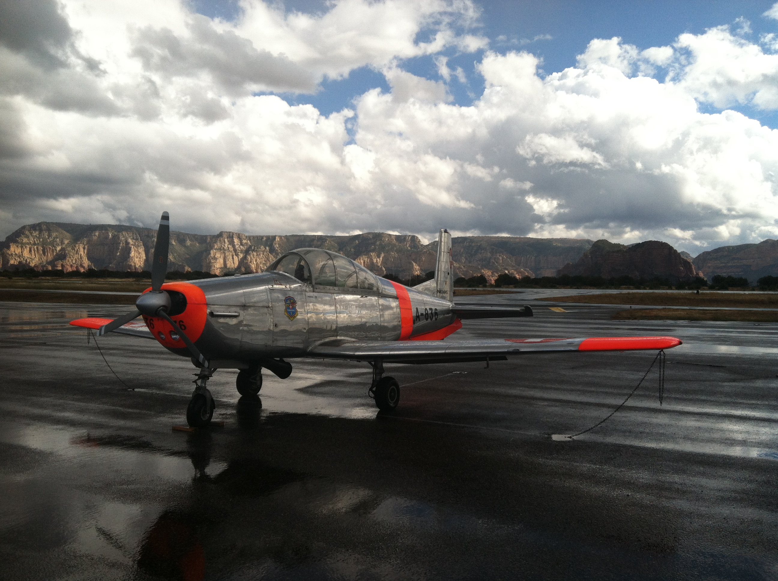 1959 Pilatus P3-05, A-836. Photo taken October, 2012 at Sedona, AZ airport